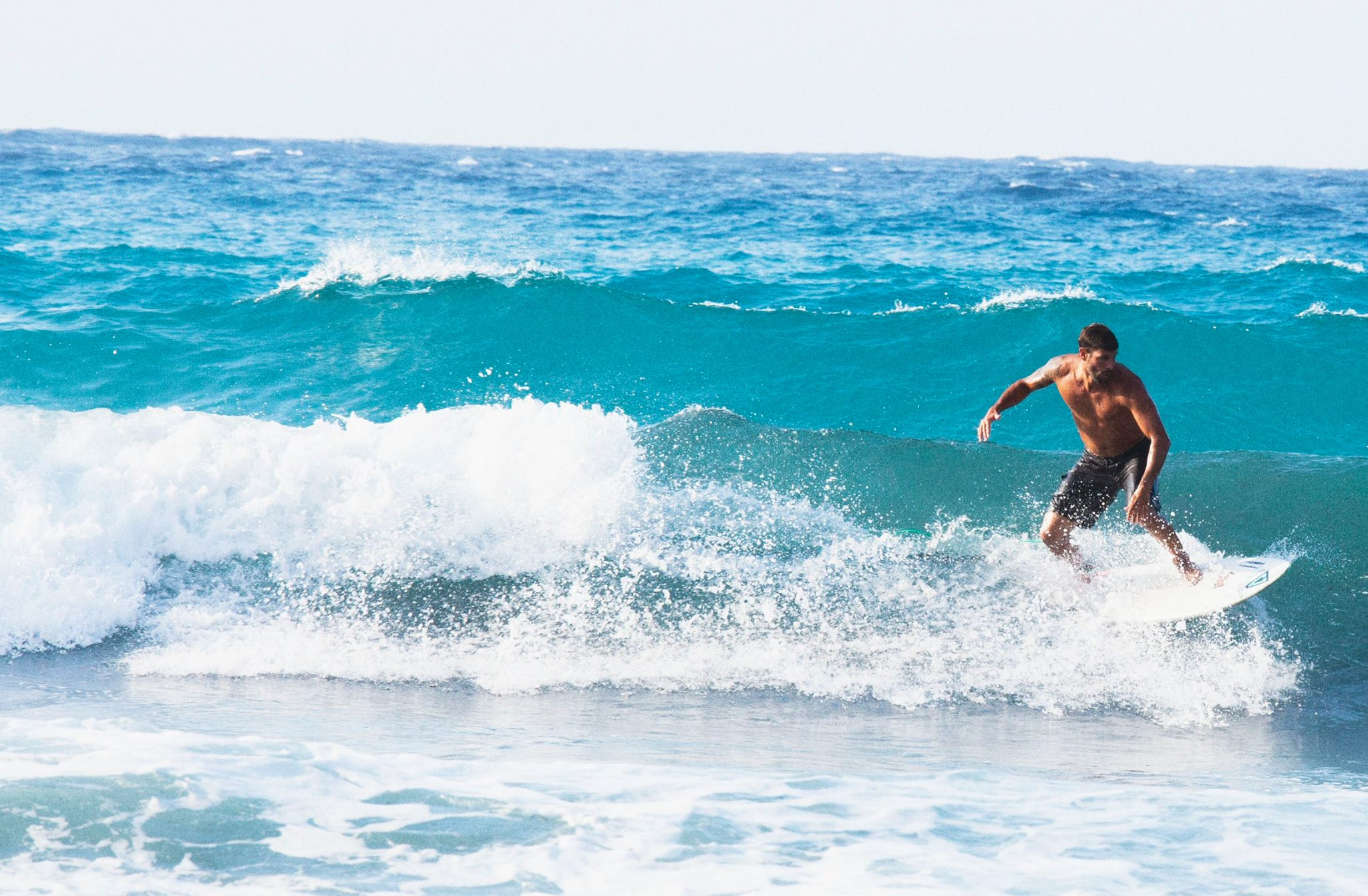 Surfer in Ikaria